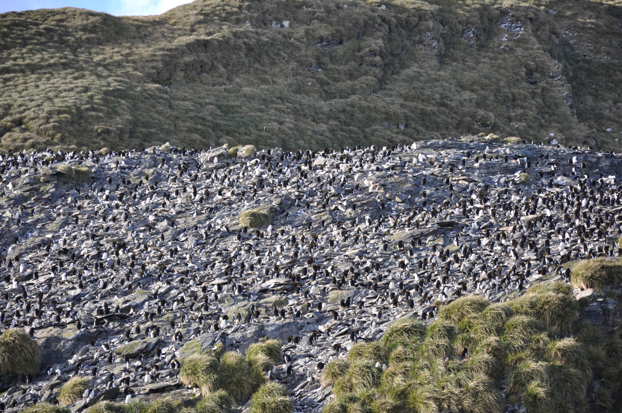 Macaroni Penguins (Eudyptes chrysolophus) - South Georgia